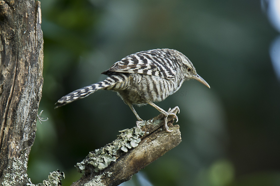 Fasciated Wren - South Ecuador_S4E1692